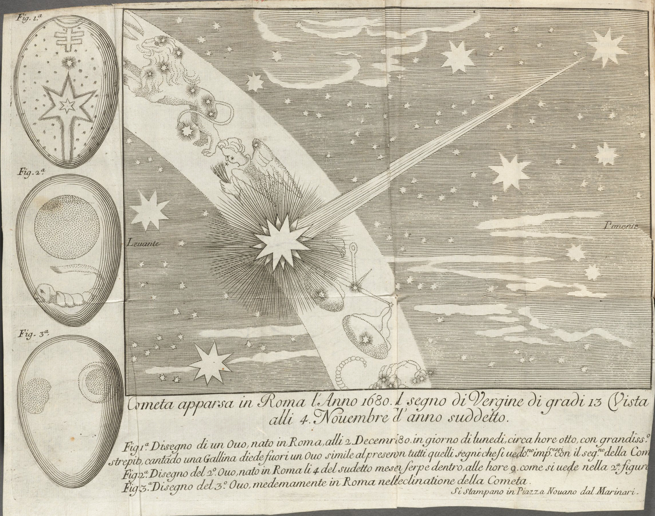 Illustration: "Cometa apparsa in Roma l'Anno 1680". From an issue of Mercure Galant, published in Paris. Original paper is imperfect. PFr 275.1.9, Houghton Library, Harvard University